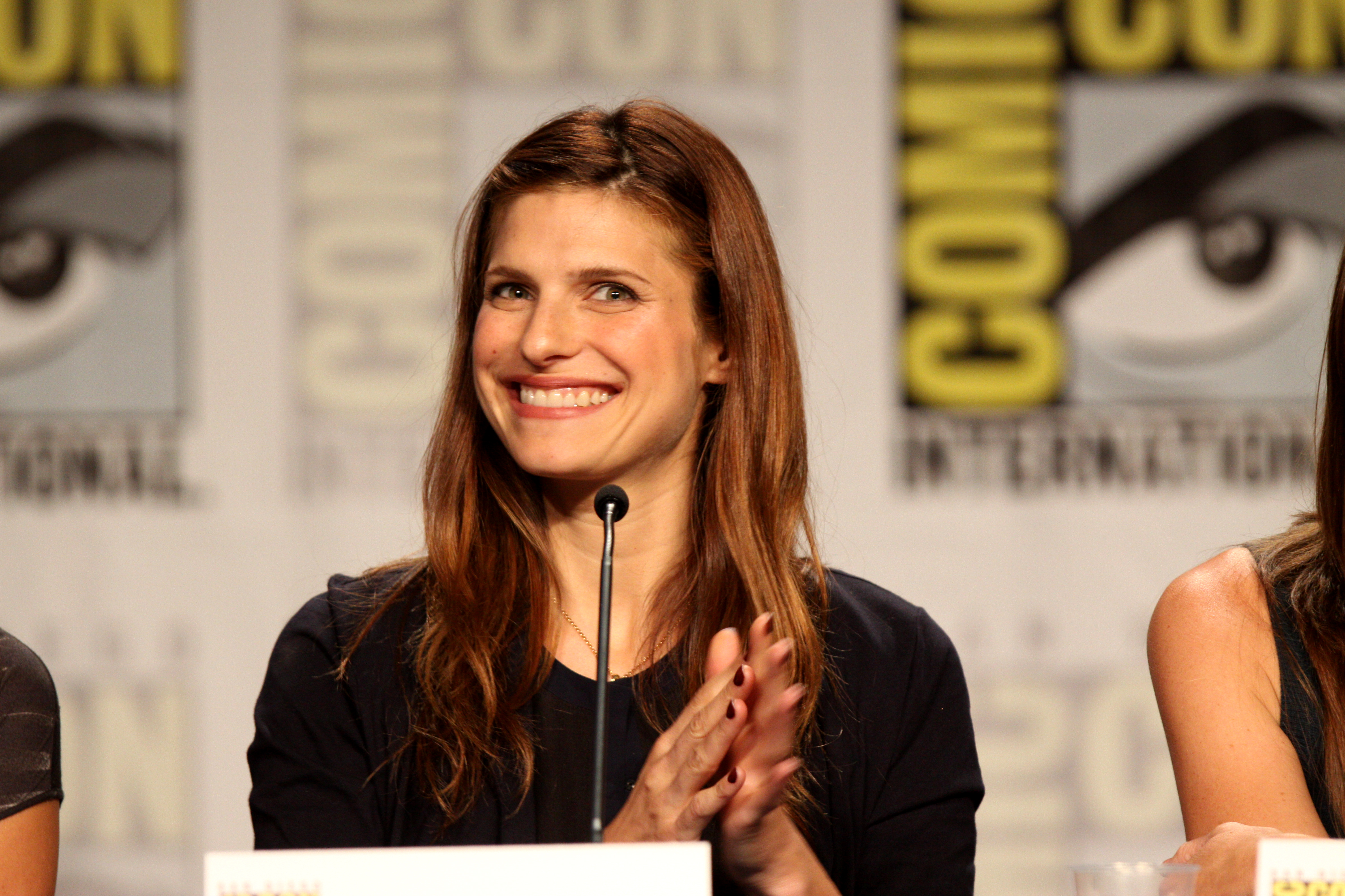 Lake Bell at the 2011 San Diego Comic-Con International in San Diego, California.